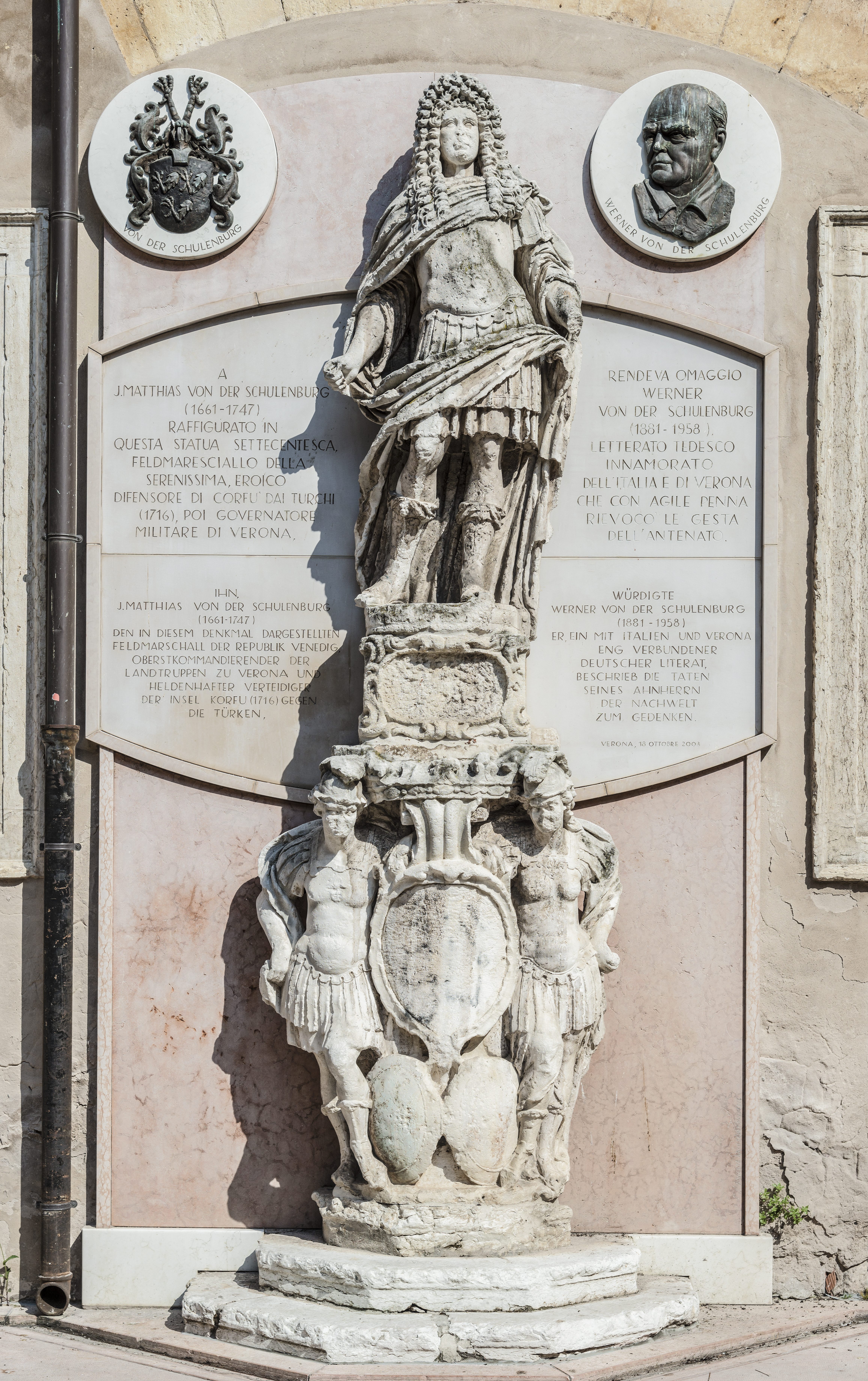 The monument to Johann Matthias von der Schulenburg in the courtyard of Palazzo di Cansignorio in Verona.